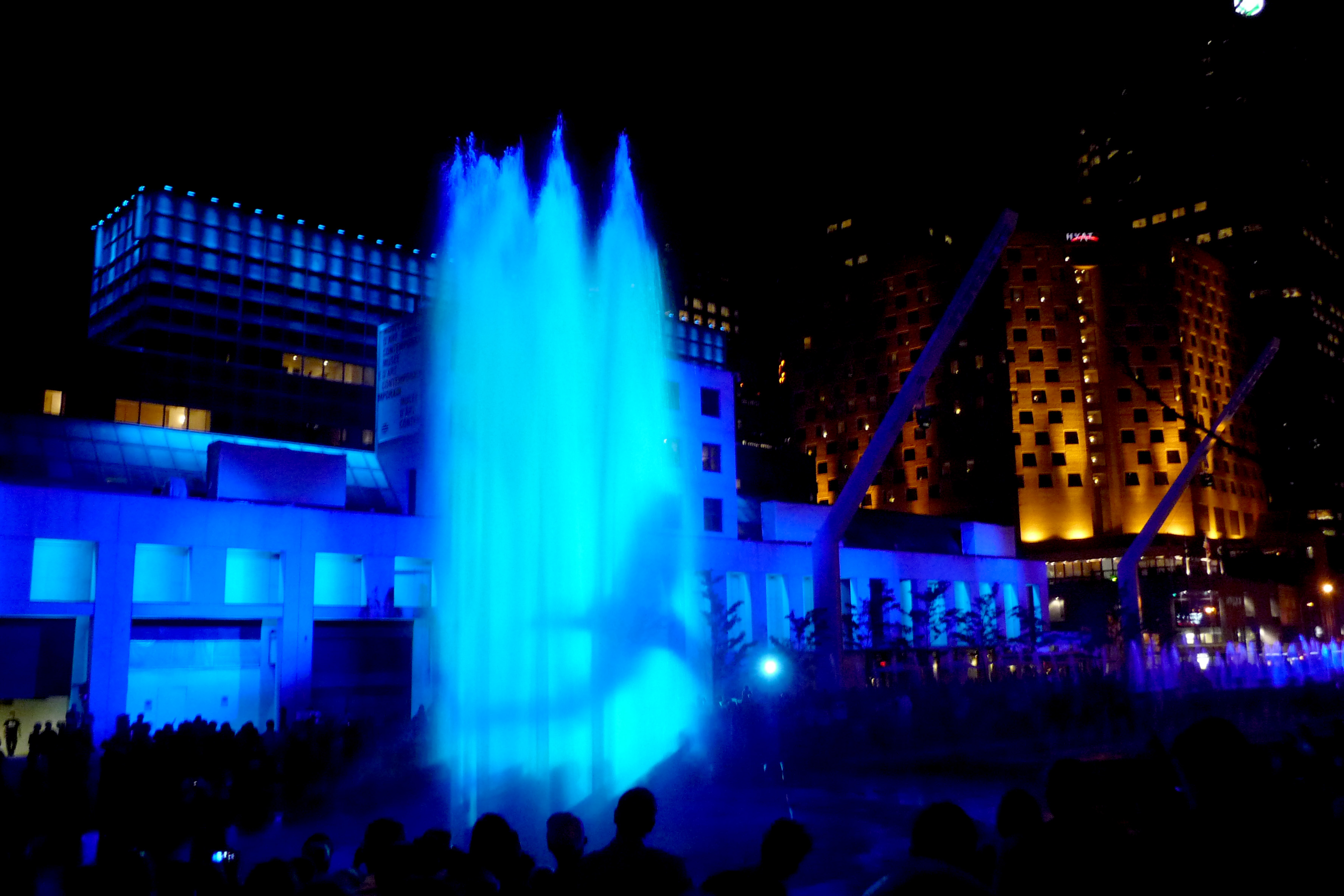 Élixir show at Place des festivals on August 2010.